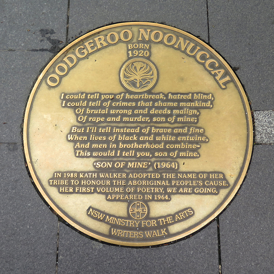 A metal plaque set in the sidewalk at Circular Quay in Sydney commemorating author and poet Oodgeroo Noonuccal as part of the Sydney Writers Walk series